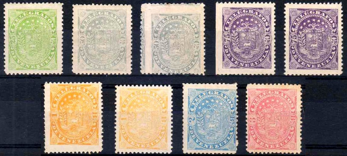 Telegraph stamps of Venezuela 1896.